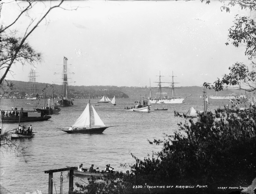 a collection of historical pictures in the Public Domain from the Powerhouse Museum. This file was posted to Flickr by The Powerhouse Museum (See the archive of their website for further information). Many thanks to the Powerhouse Museum for helping release this wonderful material. This tag does not indicate the copyright status of the attached work. A normal copyright tag is still required. See Commons:Licensing for more information.